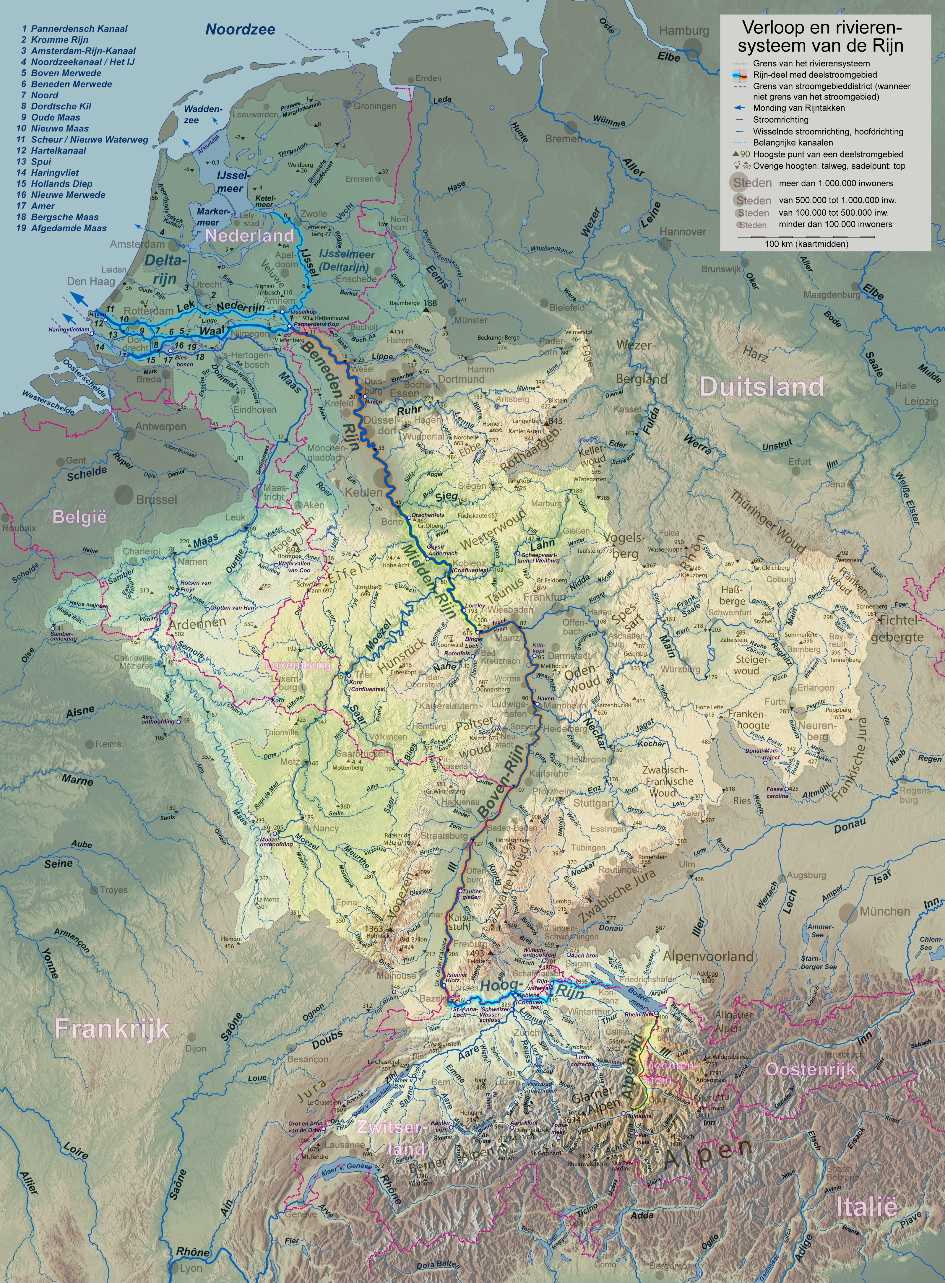 Rhine course and river system, place names in dutch